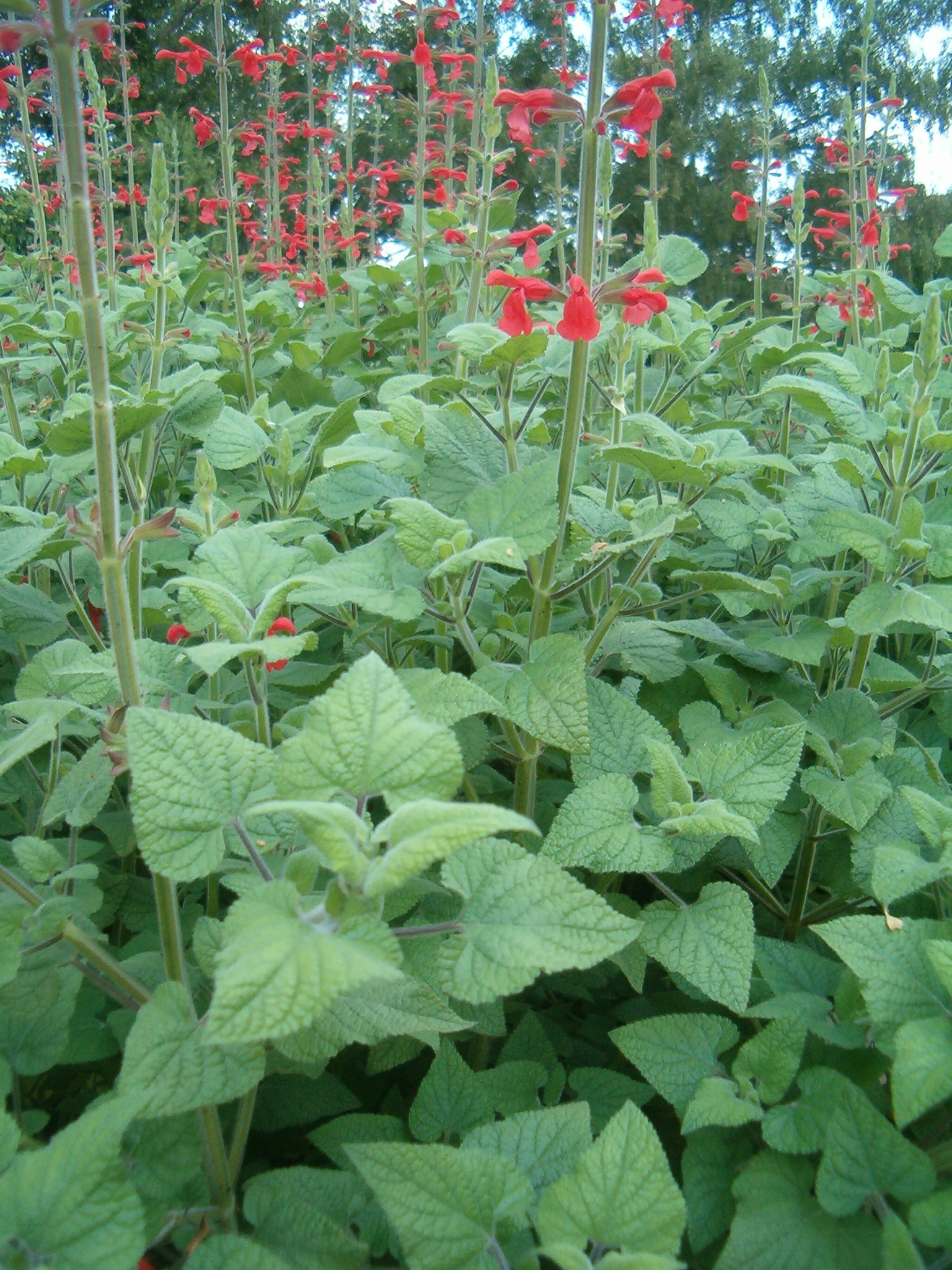 At Botanical Gardens Berlin-Dahlem Species Salvia darcyi